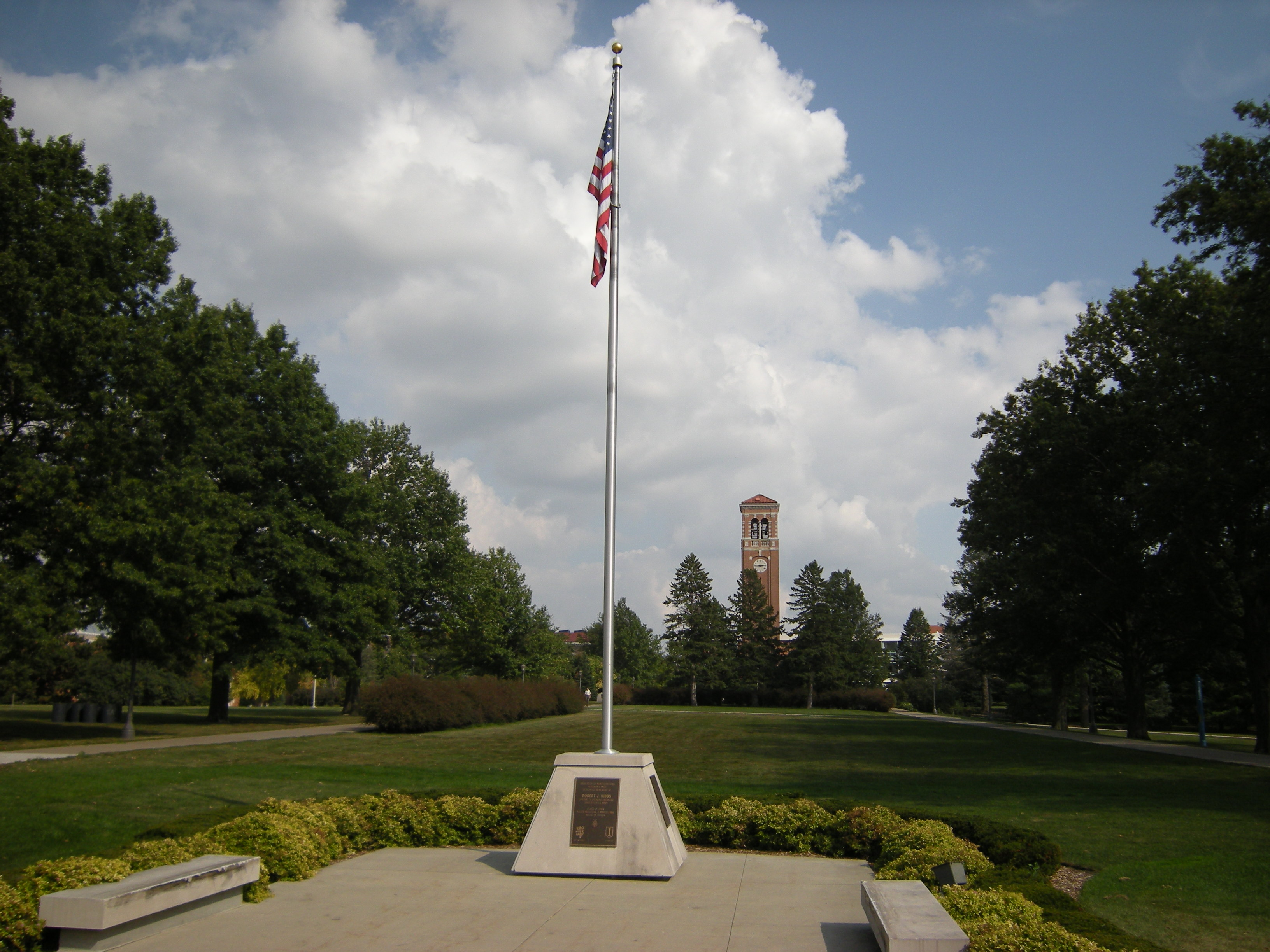 Flagpole on the UNI campus dedicated to MOH recipient 2LT Robert John Hibbs